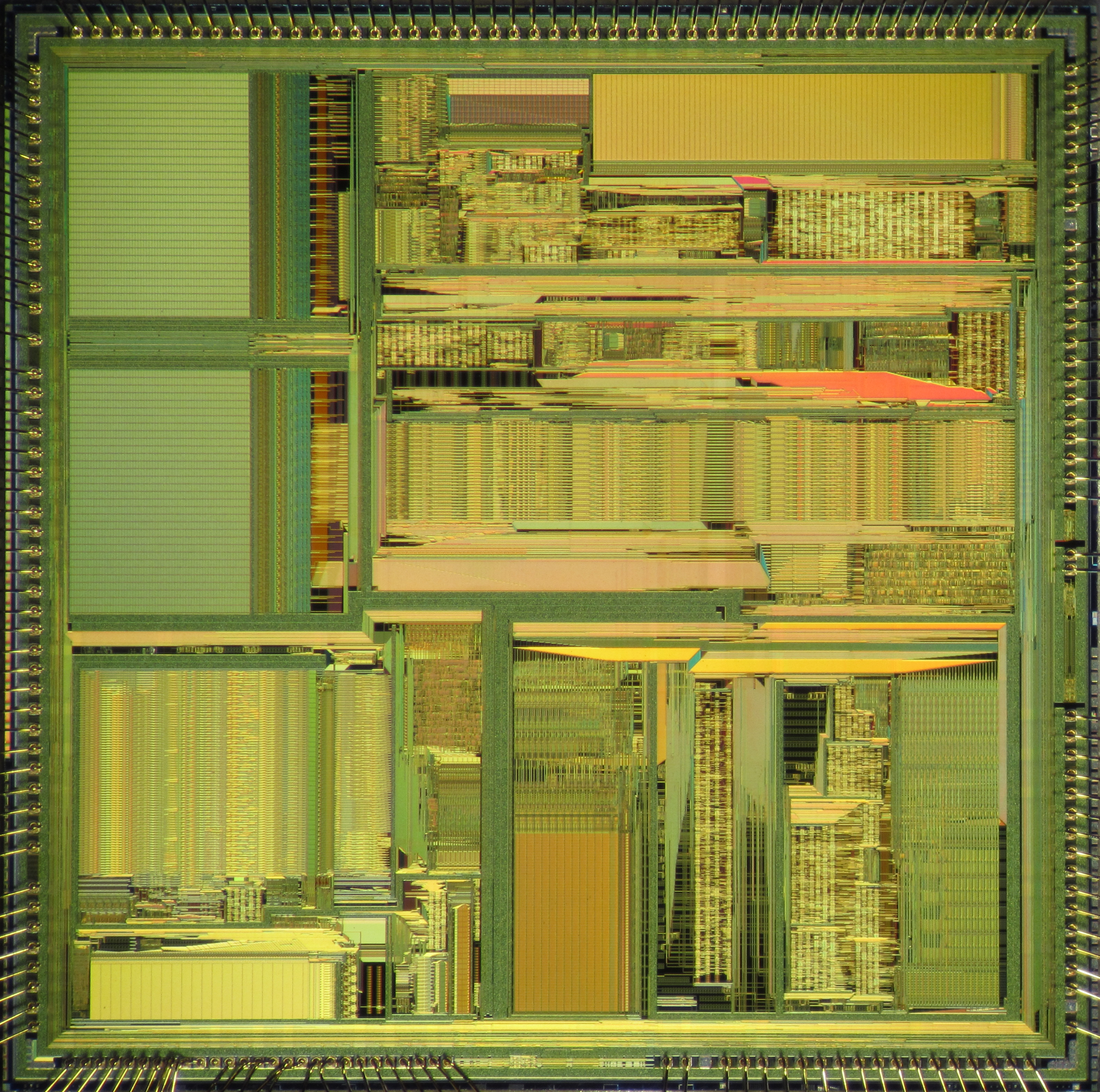 Die shot of Cyrix Cx486DX2-V66GP microprocessor.